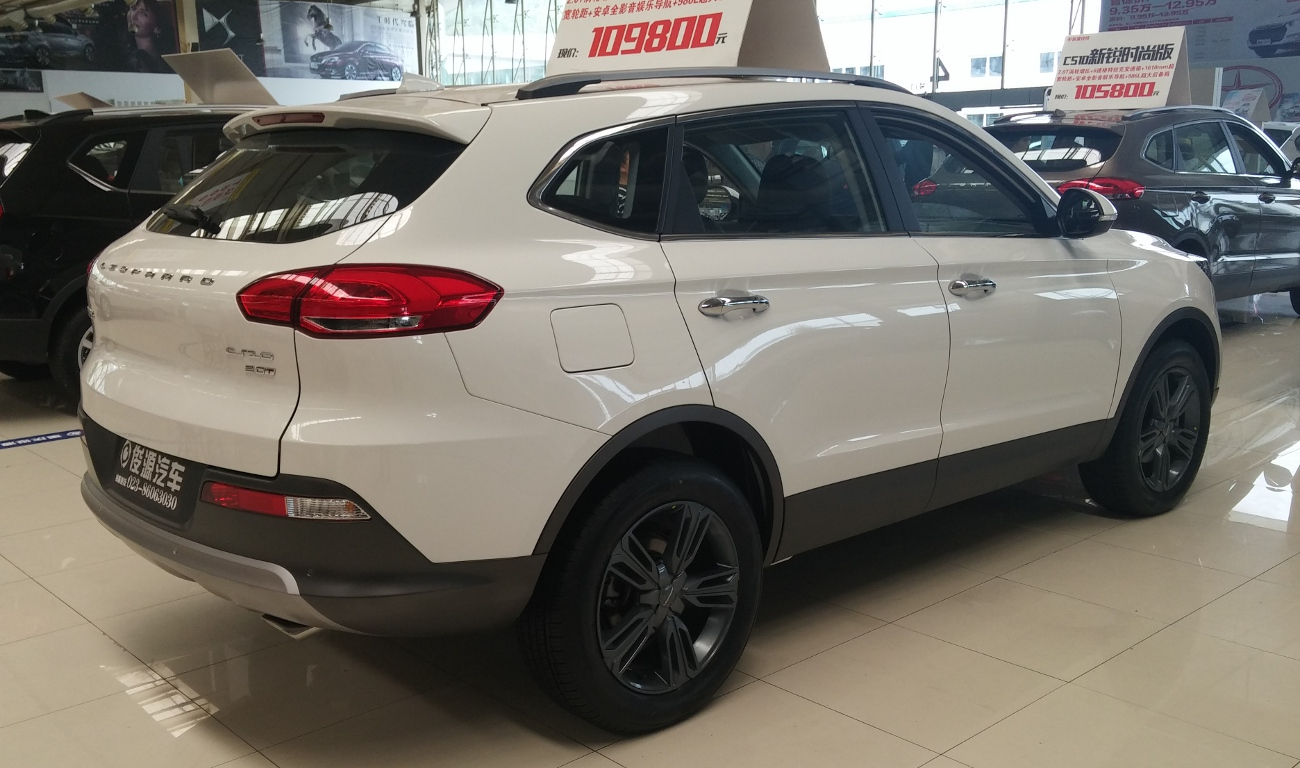 Leopaard CS10 photographed in Chongqing, China.